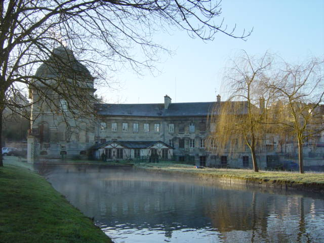 Pavillon de Manse in Chantilly. The Pavillon de Manse was part of the tremendous hydraulical system built to provide the "Château de Chantilly" with enough water for all the fountains. More information on